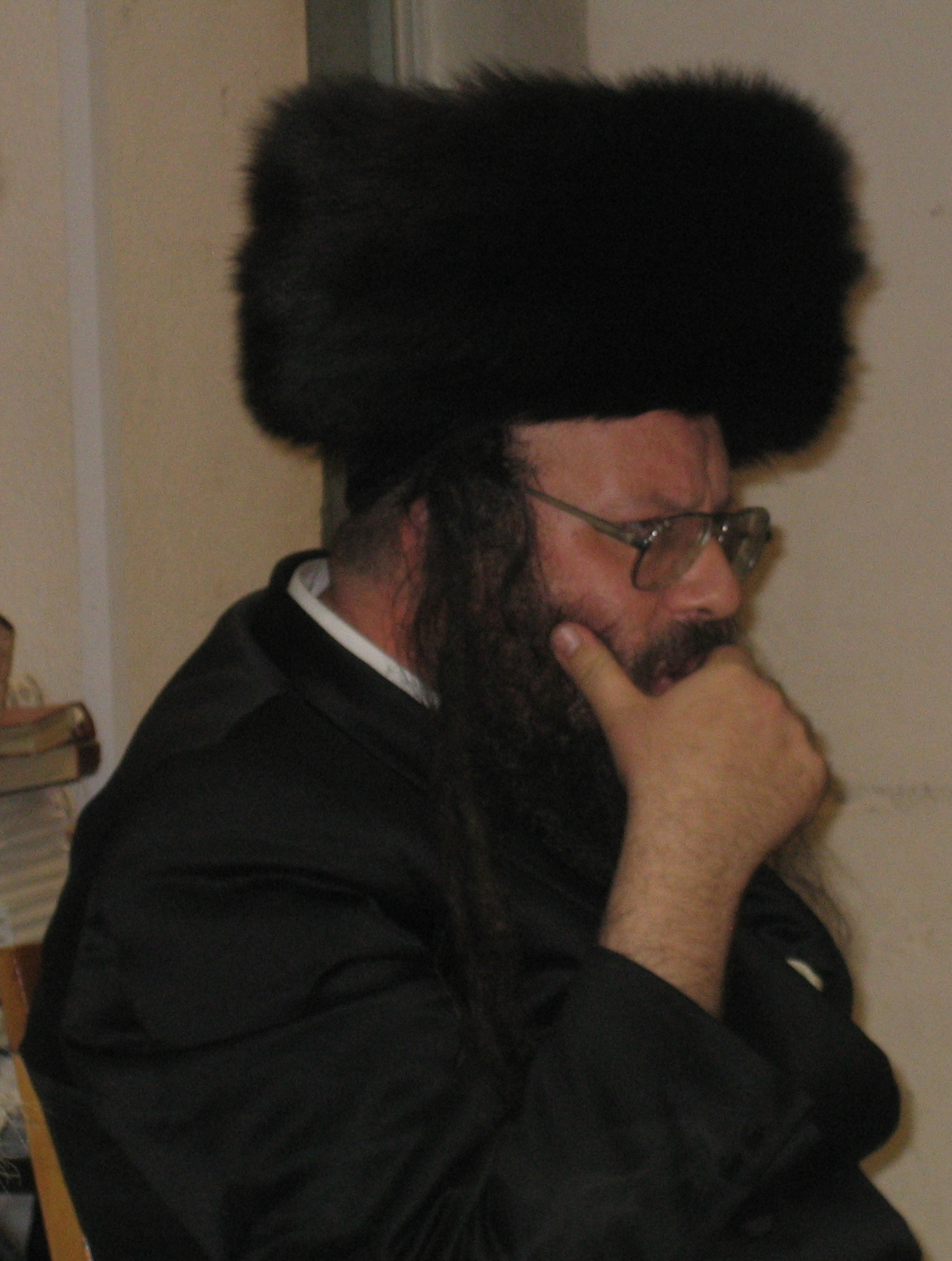 Radziner Rebbe Shilt"a Bait Vagan Tish for the Yartzeit of the Mei HaShiloach, 7 Teves 5768